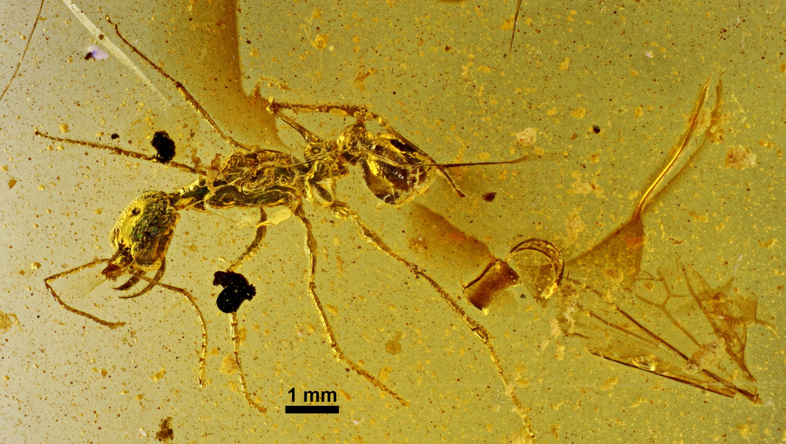 Dorsal view of an Aquilomyrmex huangi gyne. Burmese amber, Earliest Cenomanian; Noije Bum Village, near Myitkyina, Kachin State, Myanmar Private collection, Massachusetts, USA. specimen TJ41-020 Ant web specimen FANTWEB00036